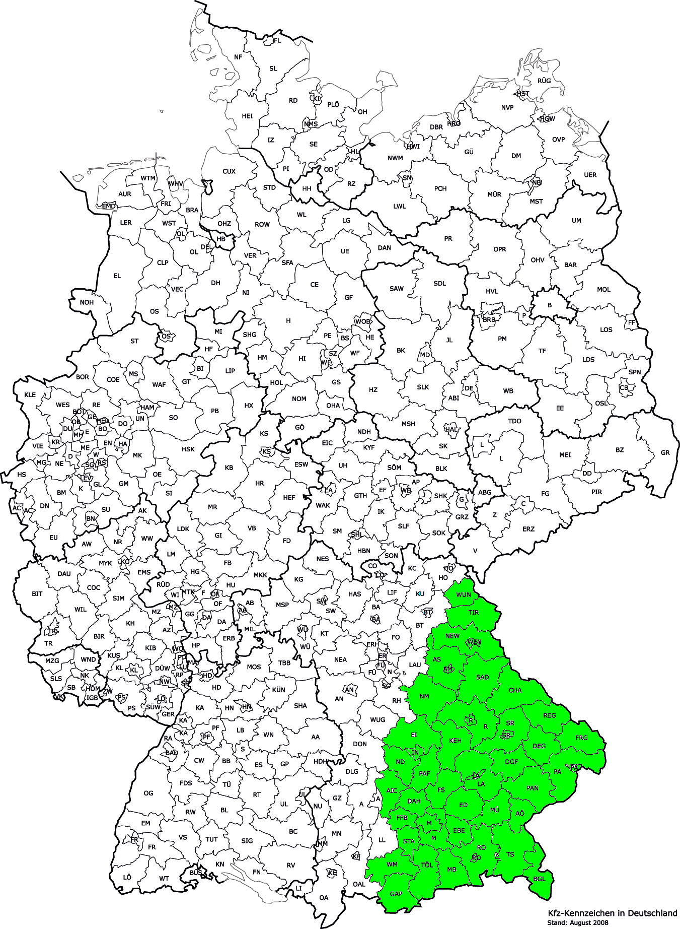 Map of Old Bavaria inside Germany